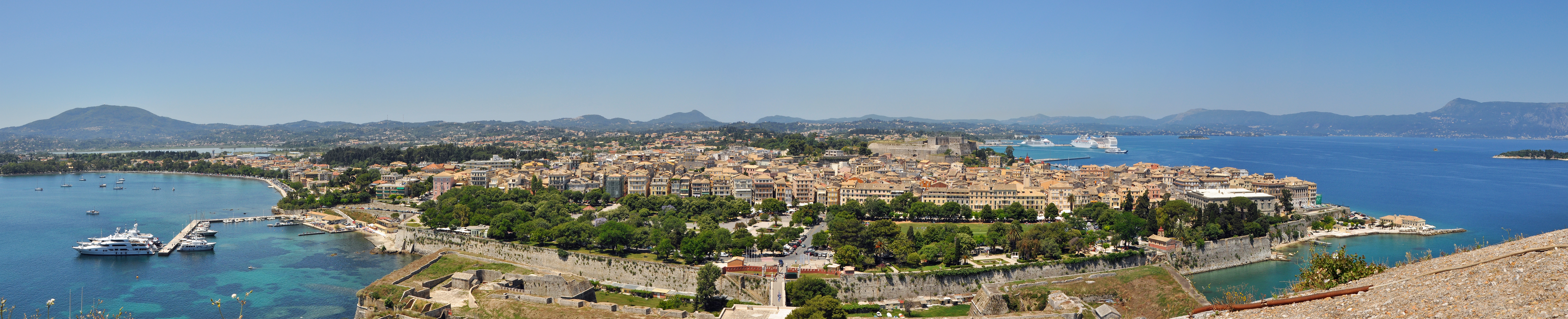 Corfu town (Corfu, Greece): general view of the city from the Old Fortress